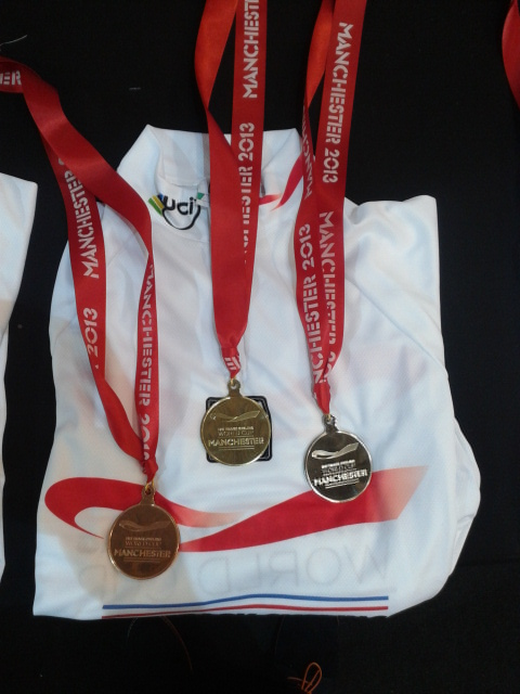 Medals and World Cup jersey at Round 1 of the the 2012-13 Track Cycling World Cup in Manchester